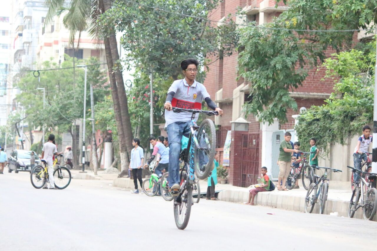 Bangladeshi school boy is raiding bicycle in the road